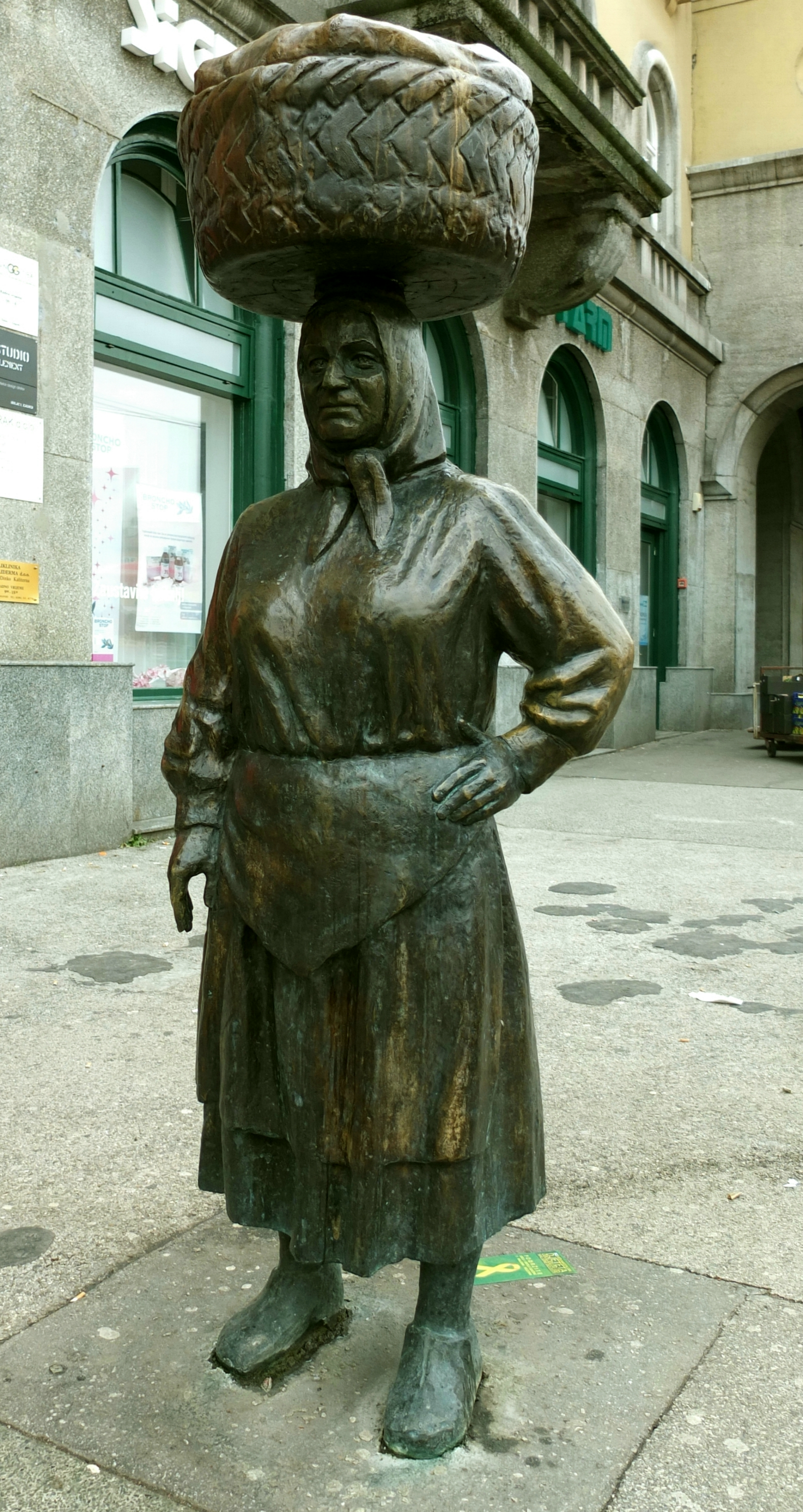 Bronze statue of a market woman carrying a basket on her head at Dolac Market, Zagreb, Croatia